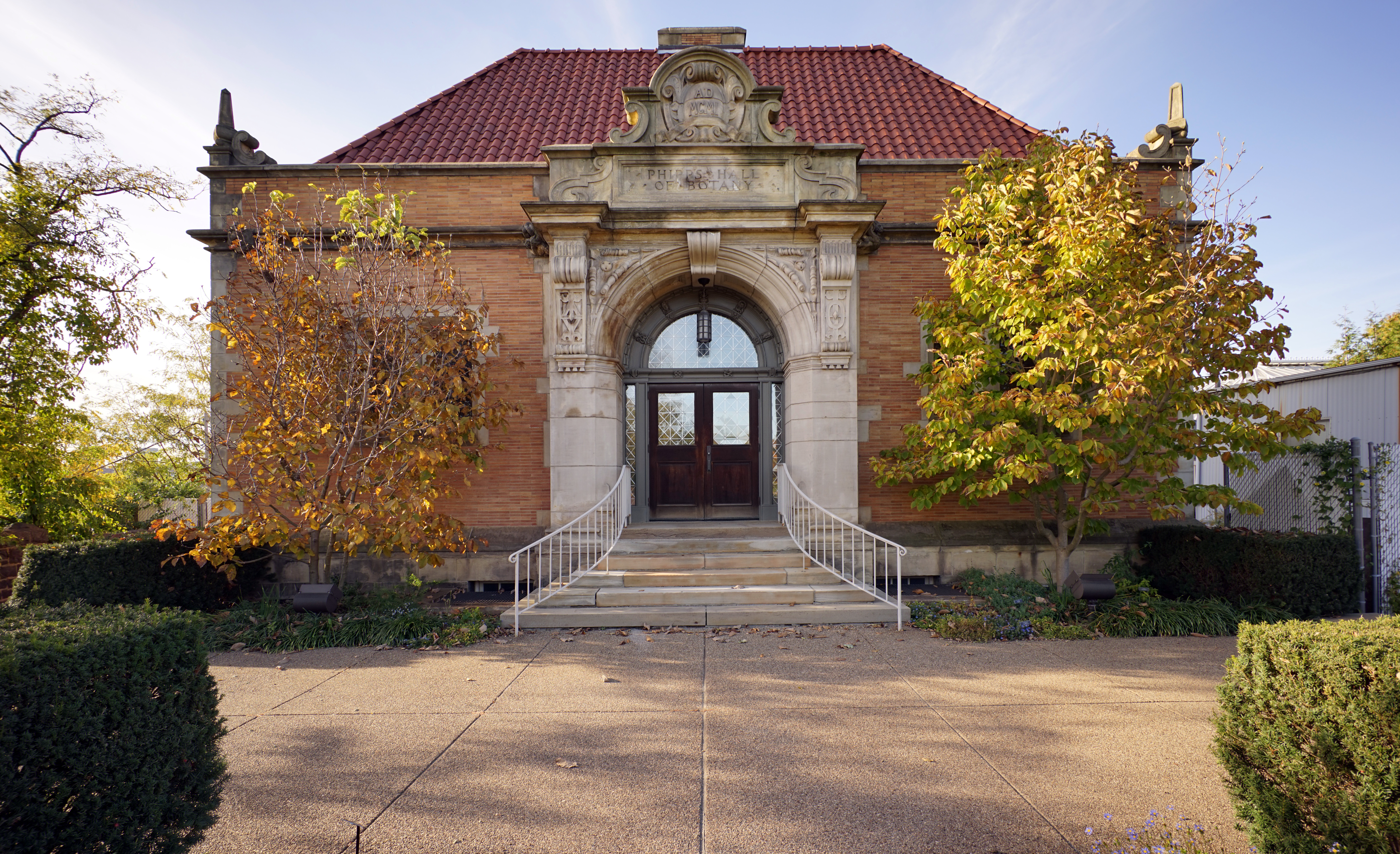 The Phipps Hall of Botany, part of the Phipps Conservatory and Botanical Gardens, which is a complex of buildings and grounds set in Schenley Park, Pittsburgh, Pennsylvania. Founded in 1893, the gardens serve to educate and entertain the people of Pittsburgh with formal gardens.